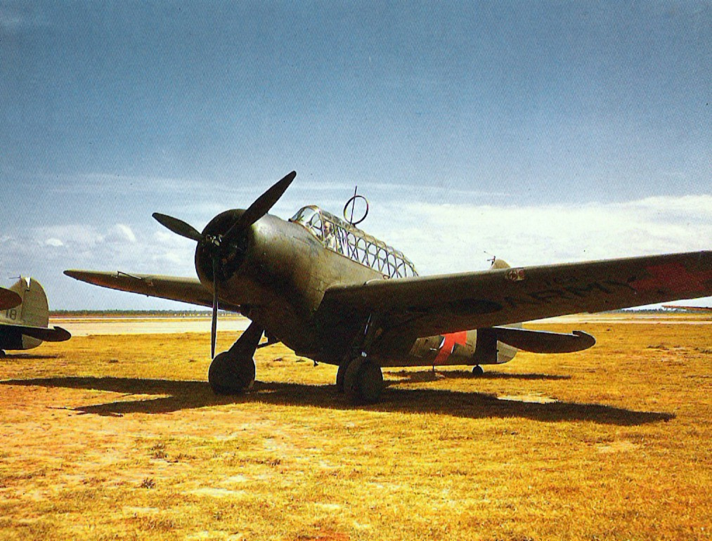 A U.S. Army Air Corps North American O-47B during manoeuvres in 1941. The aircraft belonged to the "red forces" during the manoeuvres, hence the red crosses.